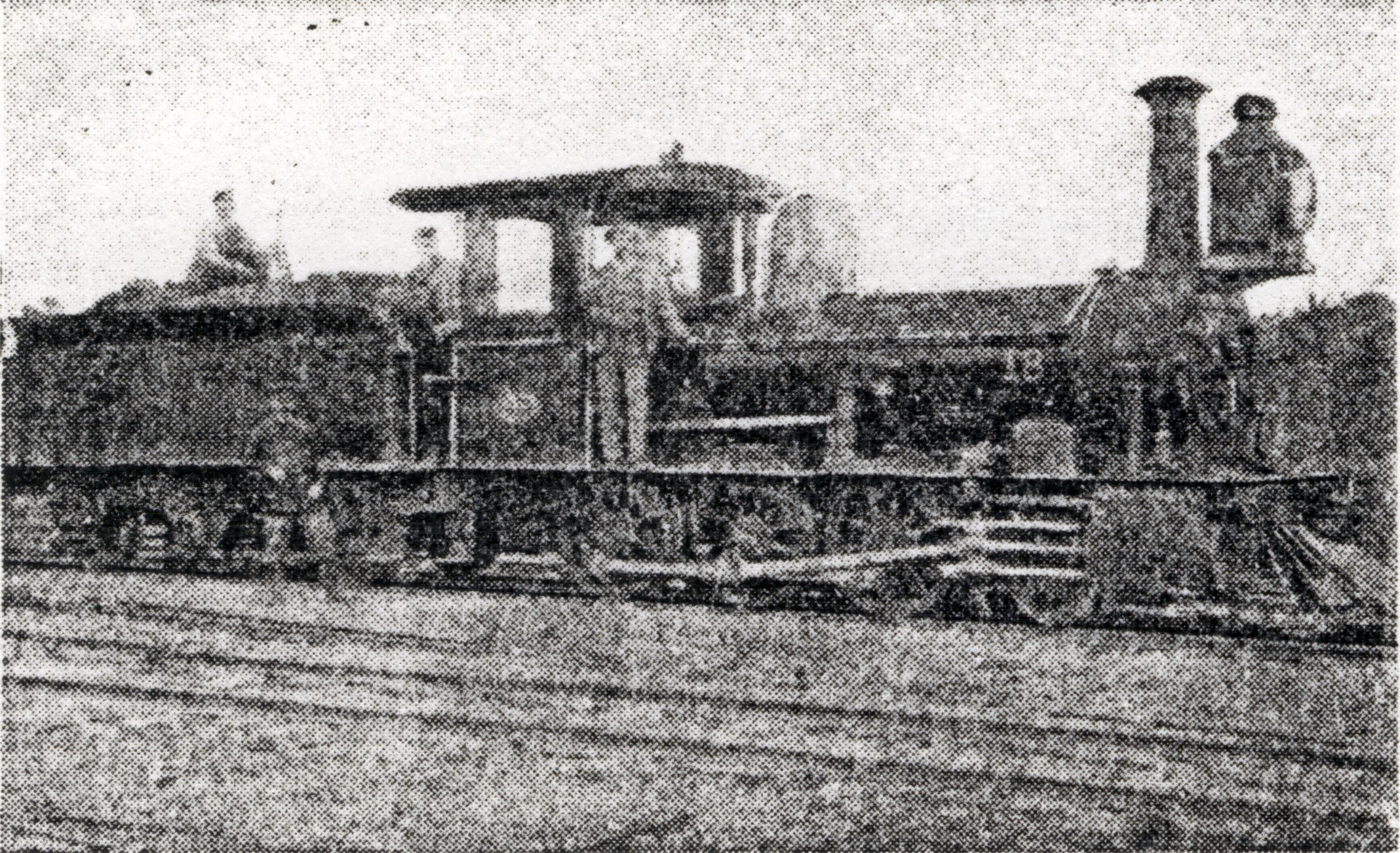 Cape Government Railways 1st Class 2-6-0 of 1876, bearing no. 18 on the boiler